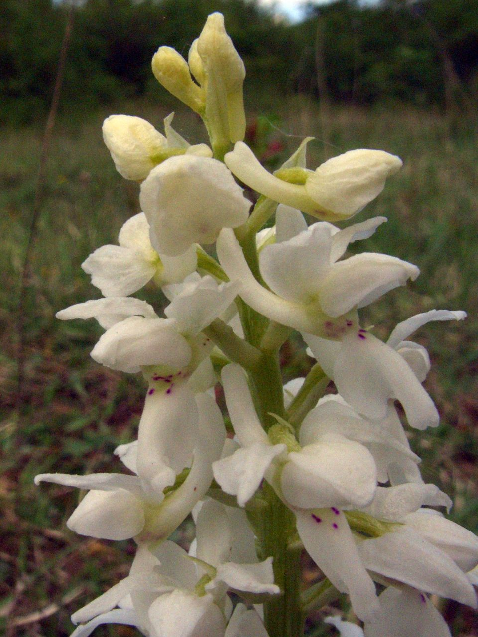 Orchis mascula